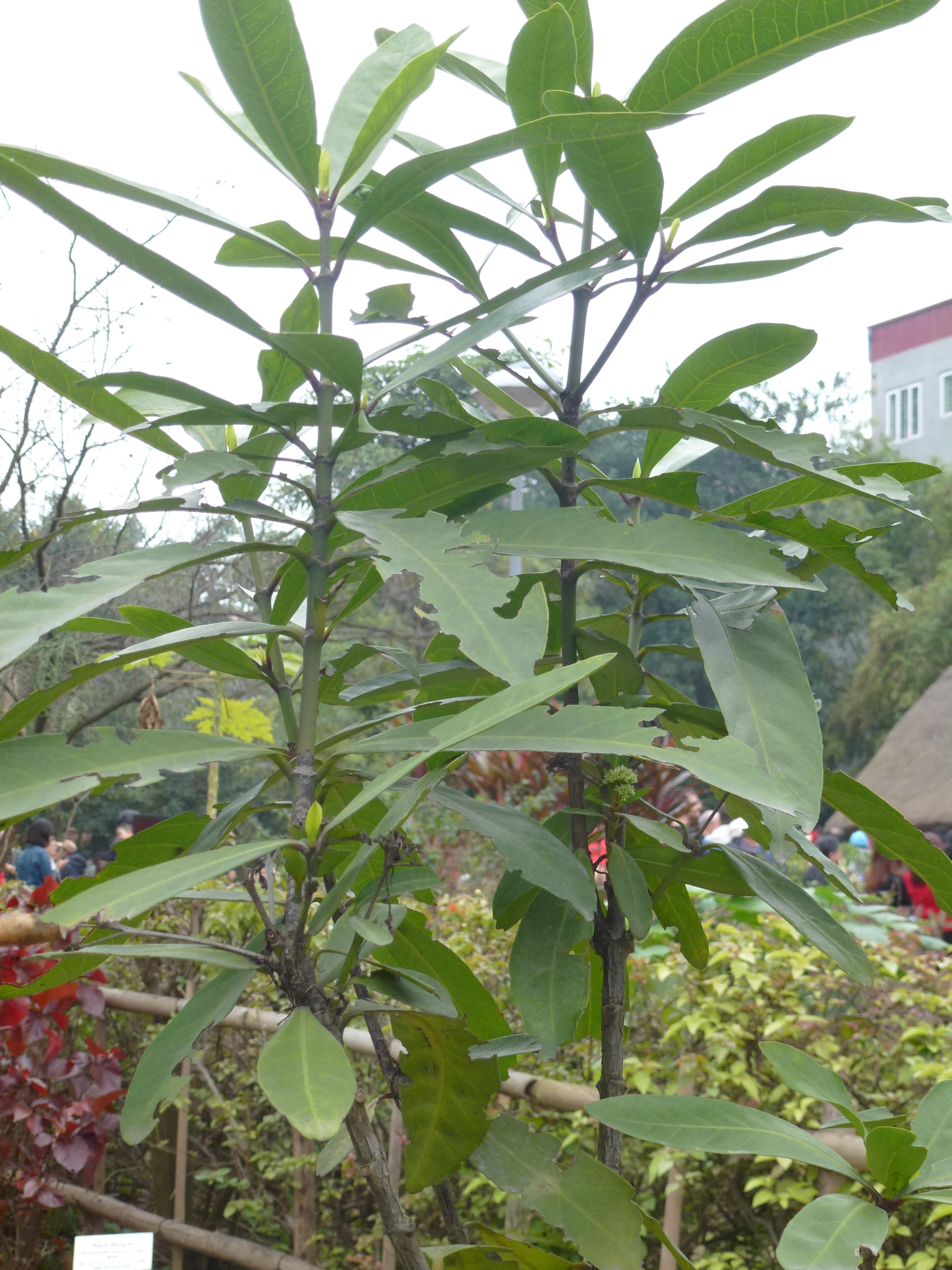 Psychotria reevesii